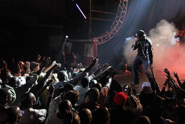 GNL Zamba 2013